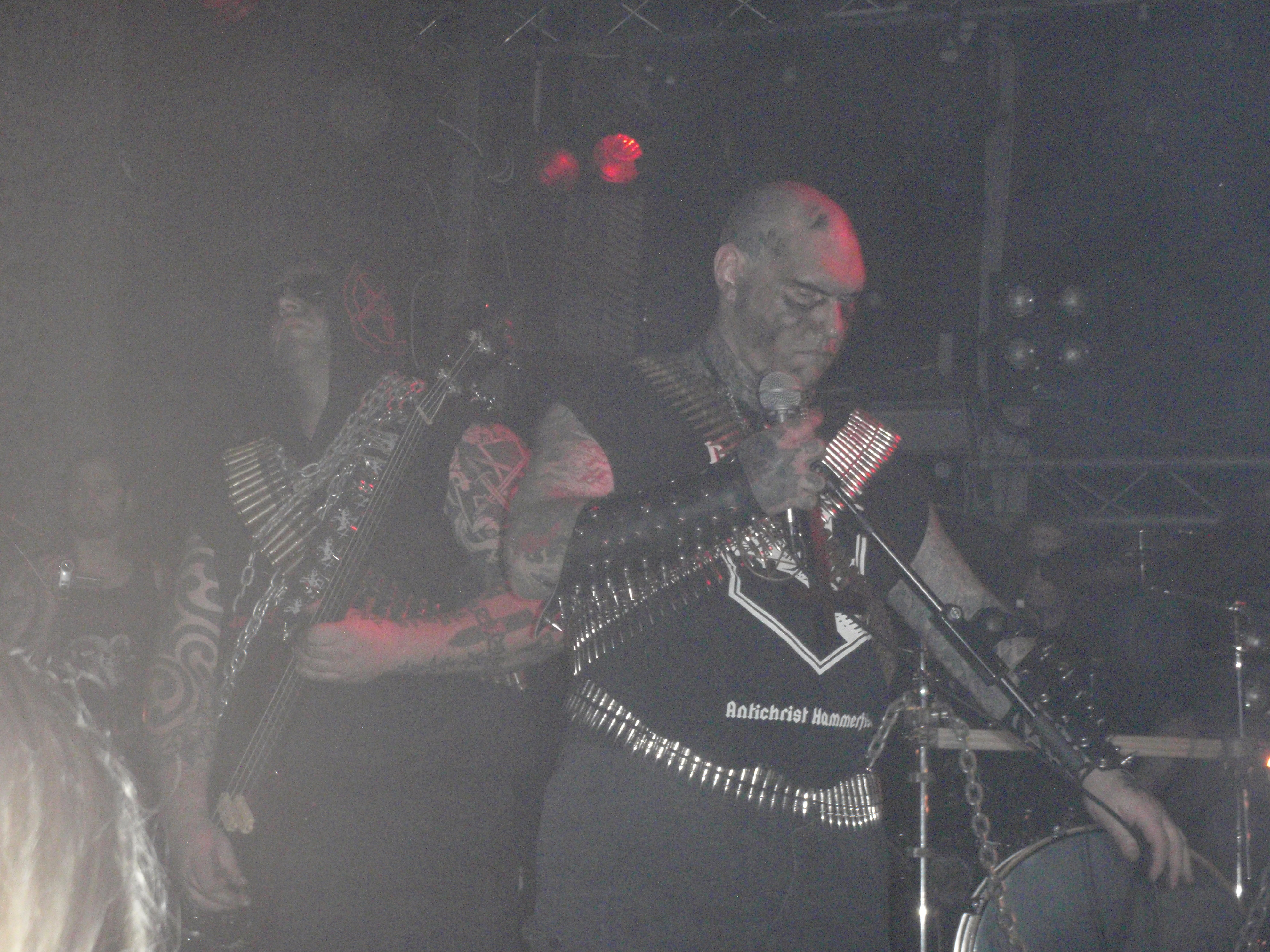 Blasphemy at the Black Flames of Blasphemy festival concert.